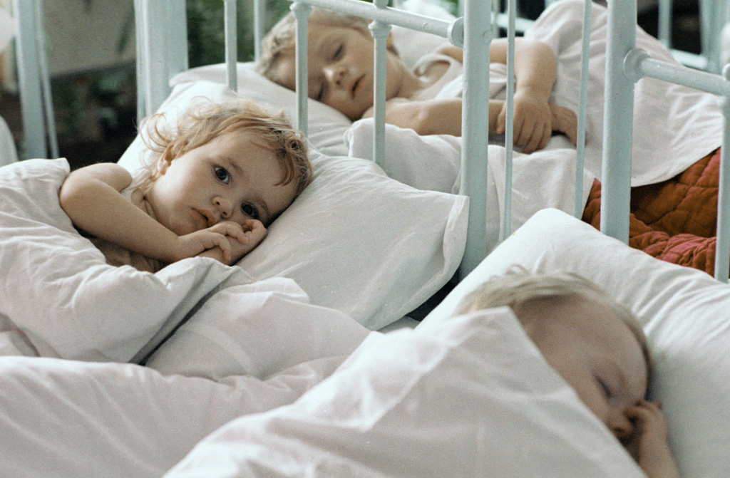 “Nap time”. Children sleeping. Nap time in kindergarten of 'Proletarskaya Volya' collective farm.